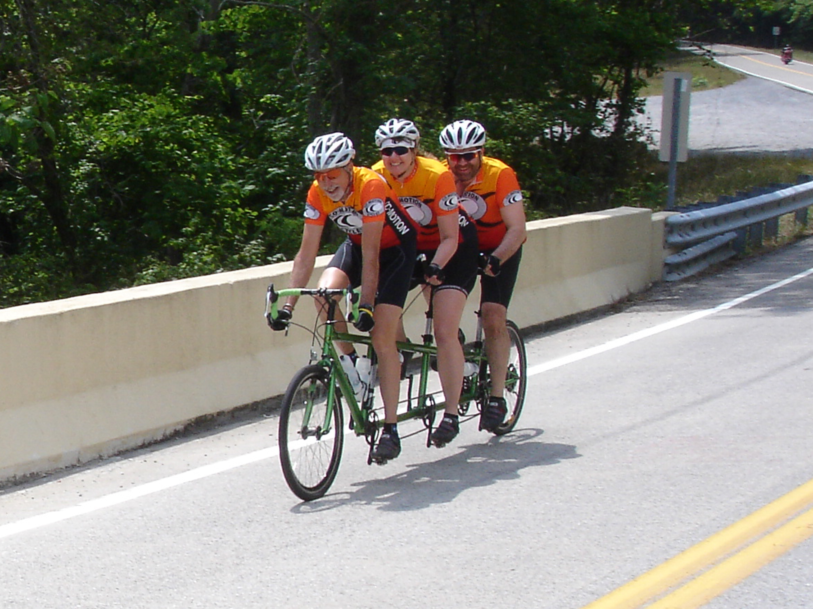 The Triplet descending from Tail of the Dragon